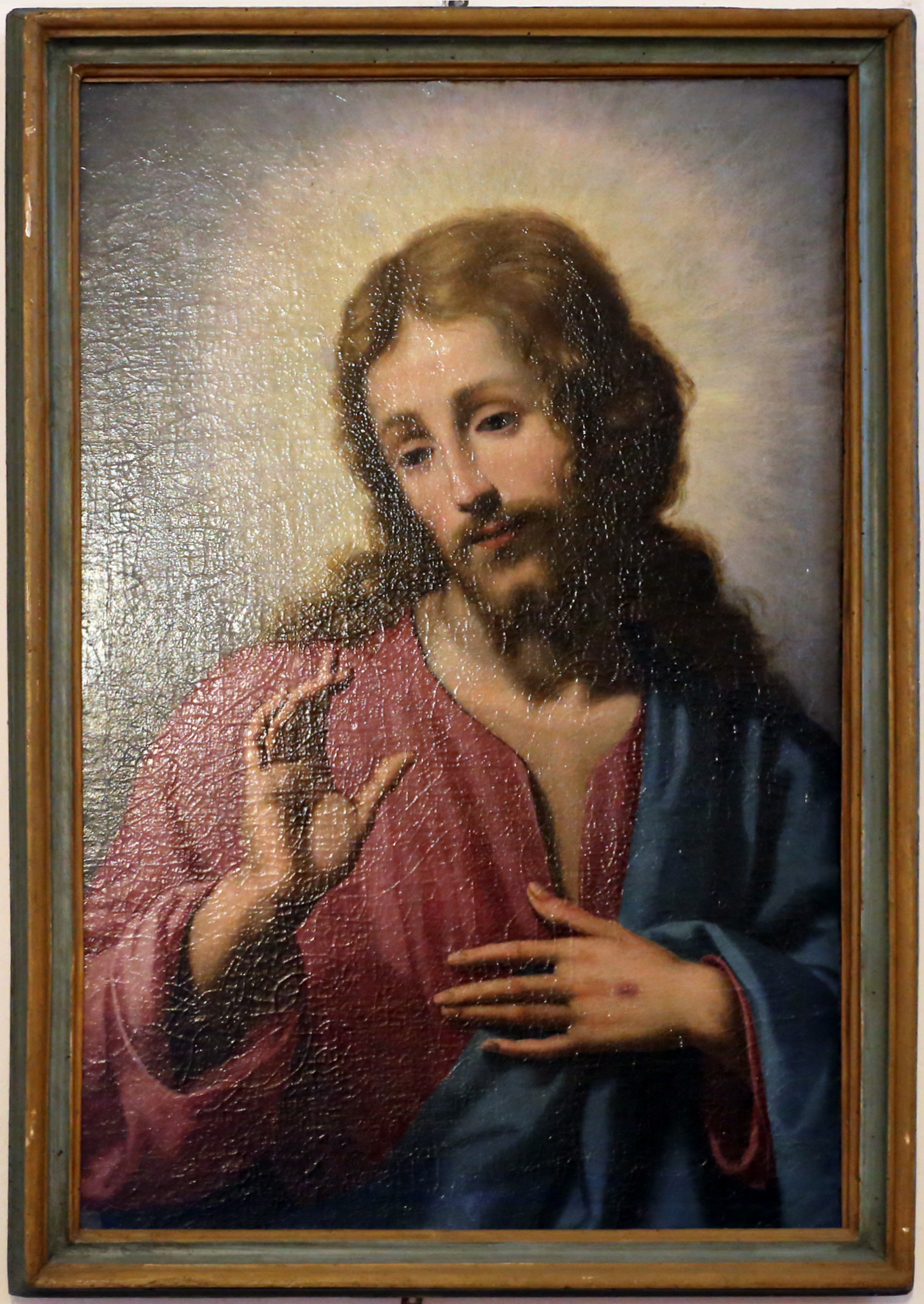 San Pietro (Vaglia) - Interior